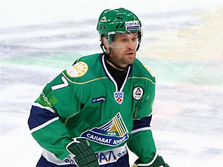 Vataly